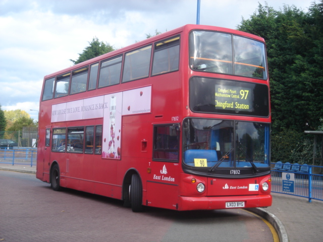 East London's 17832 (LX03 BYG), a Dennis Trident/Alexander ALX400 double-decker bus at Chingford with a route 97 service from Leyton.